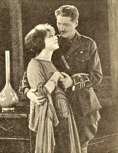 Still from the American drama film A Society Exile (1919) with Elsie Ferguson and William P. Carleton, page 1867 of the August 30, 1919 Motion Picture News.